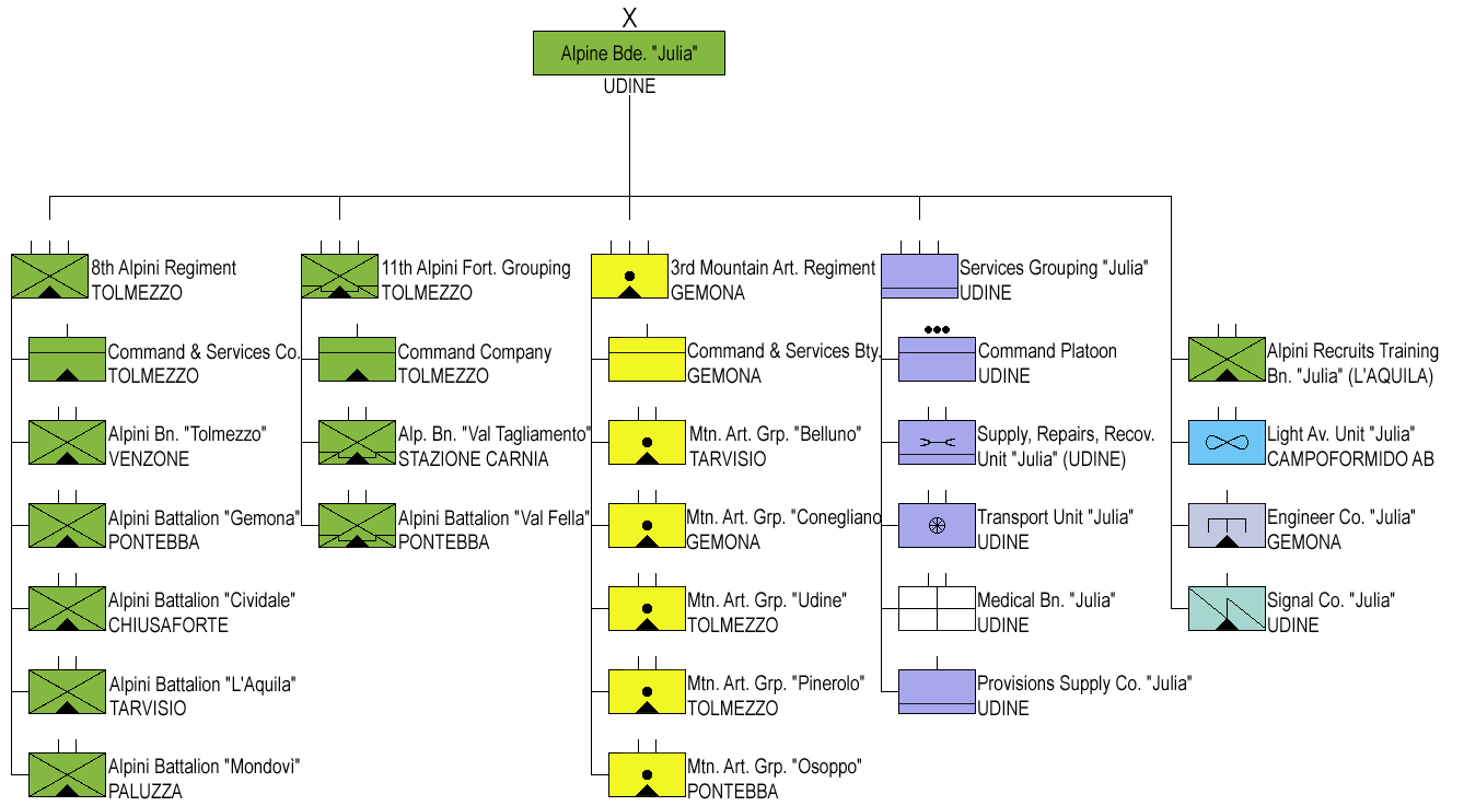 Structure of the Italian Army "Julia" Alpine Brigade in 1974